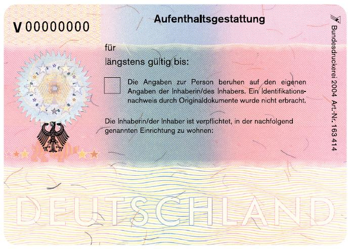 Adhesive label for temporary residence permit for asylum seekers (in Germany)